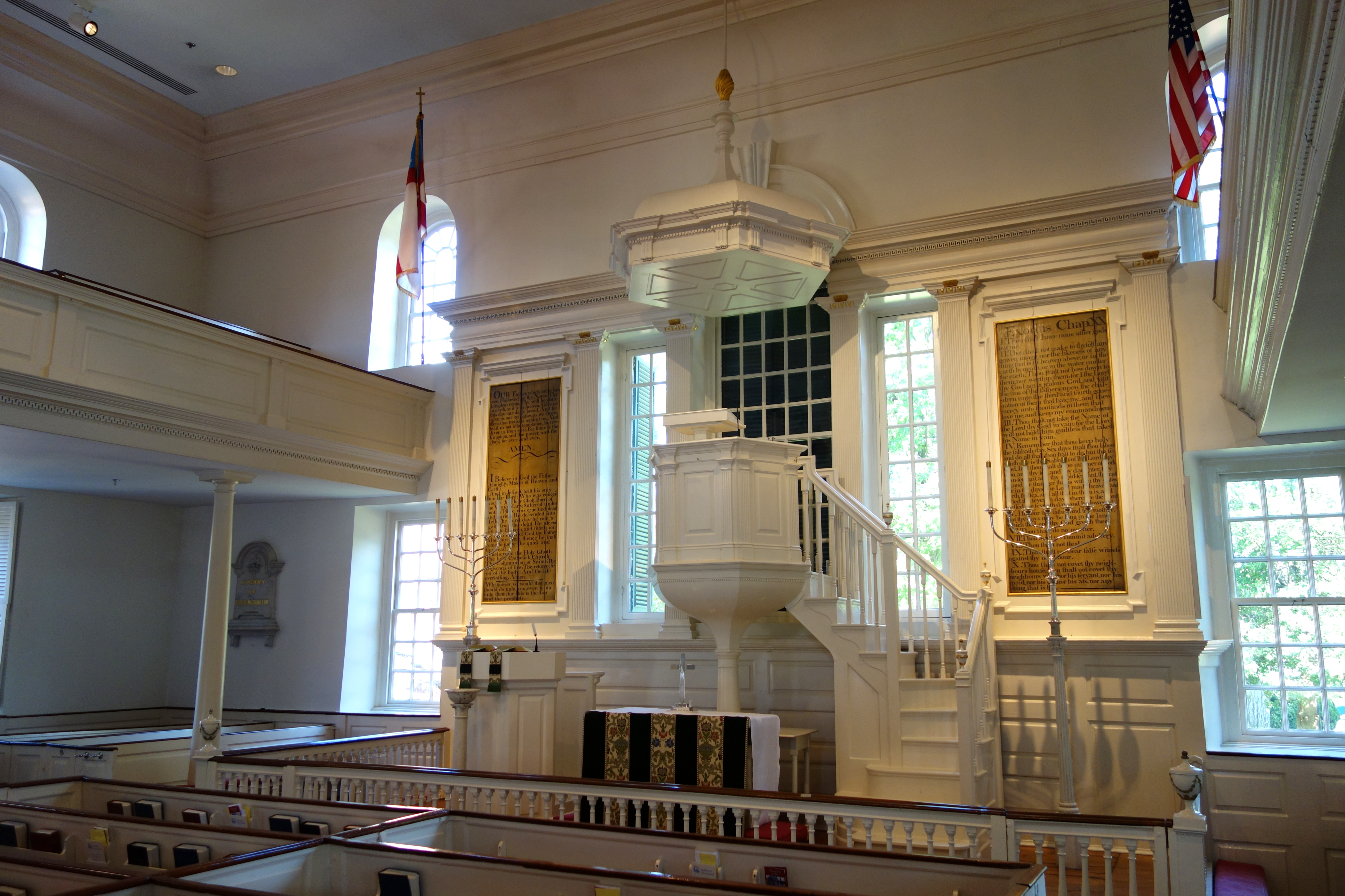 Christ Church (Alexandria, Virginia, USA).